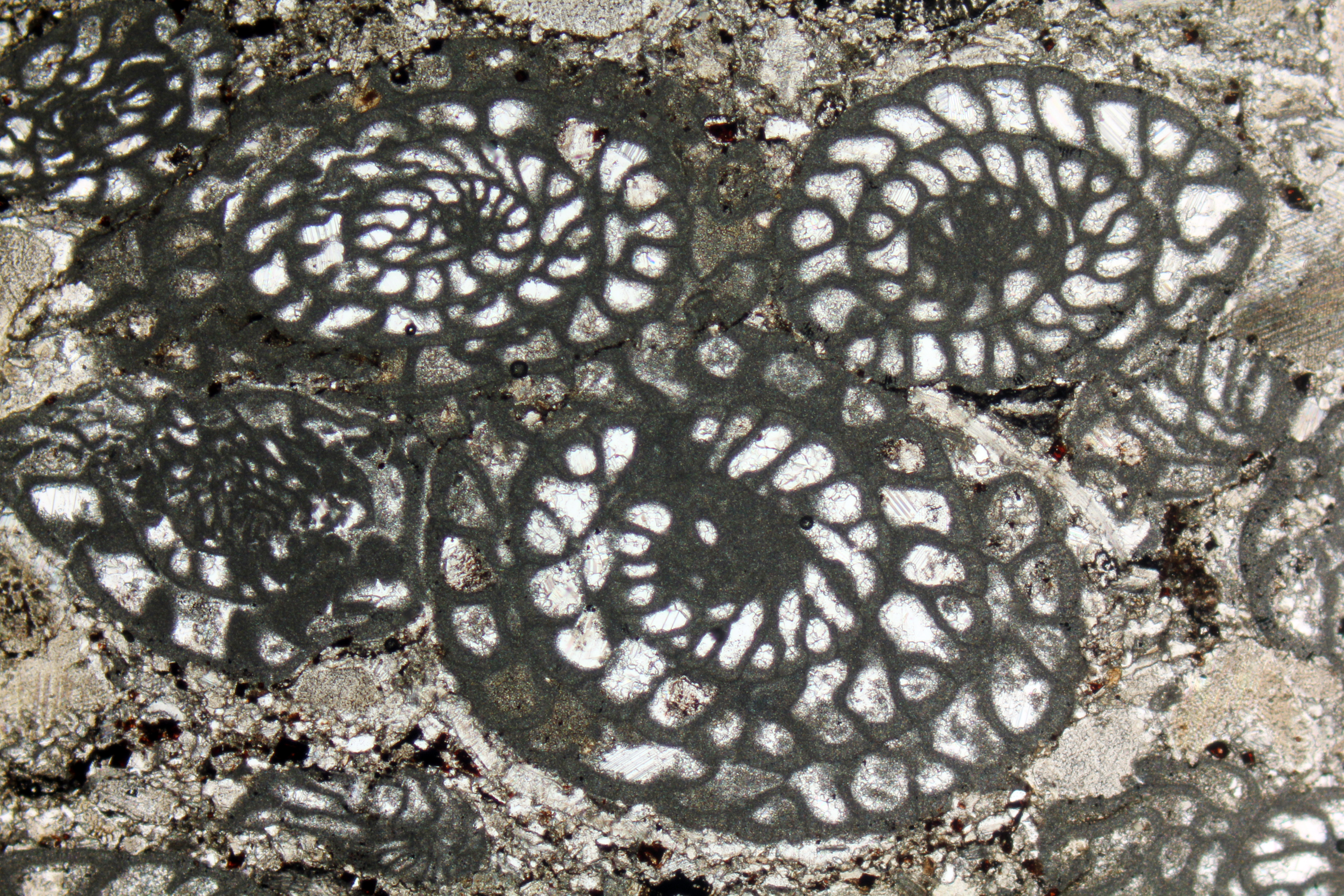 Fusulinida (rounded and dark) and brachiopods (elongate) fossils in a limestone. Plane polarized light image, magnification 2x (Field of view = 7mm)